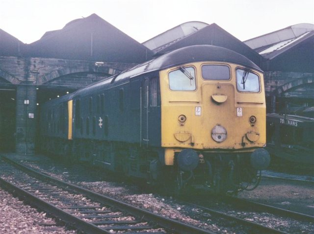 Motherwell Depot and 24065 (Built in 1960) The loco depot still survives in 2005 despite the loss of the Ravenscraig Steel in 1992. 24065 was less fortunate, not lasting out to the end of 1976.